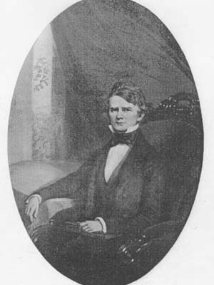 Portrait of John W. Maury, circa 1840. In the public domain.